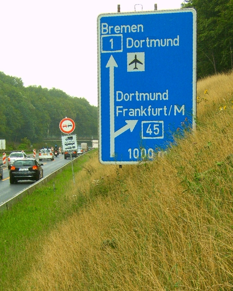 Intersection of the Bundesautobahn 1 and Bundesautobahn 45 in North Rhine-Westphalia, Germany